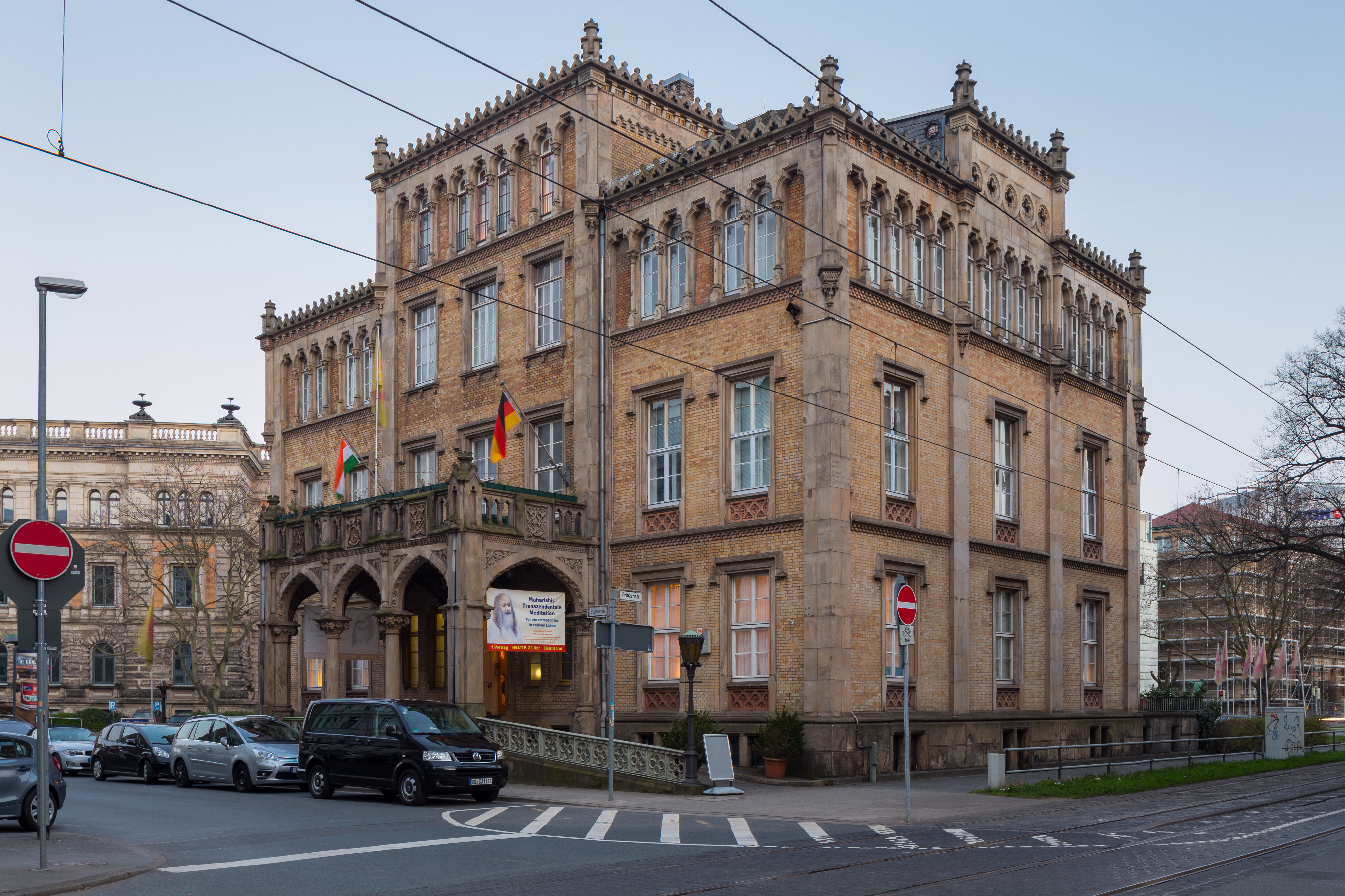 Grote-Palais building located at Sophienstrasse no. 7 in Mitte quarter of Hannover, Germany.